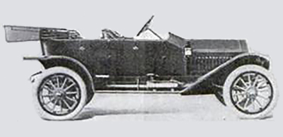 A side view of the Jonz Automobile Co. 1910 Four-Door Runabout with body by The Kahler Co.